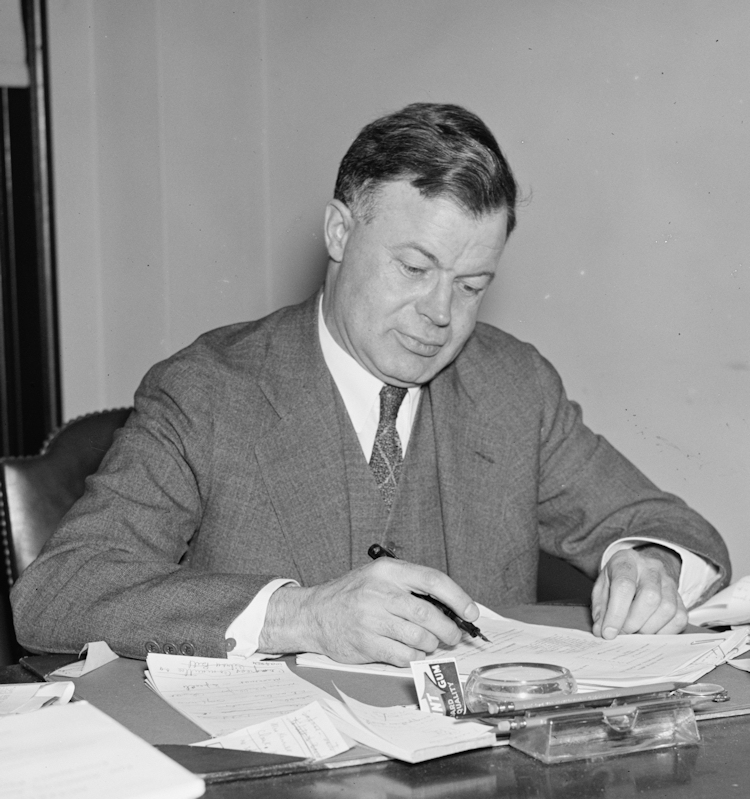 Joseph Warren Madden, Chair of the National Labor Relations Board (NLRB), working at his desk at the NRLB in Washington, D.C., in June 1937.